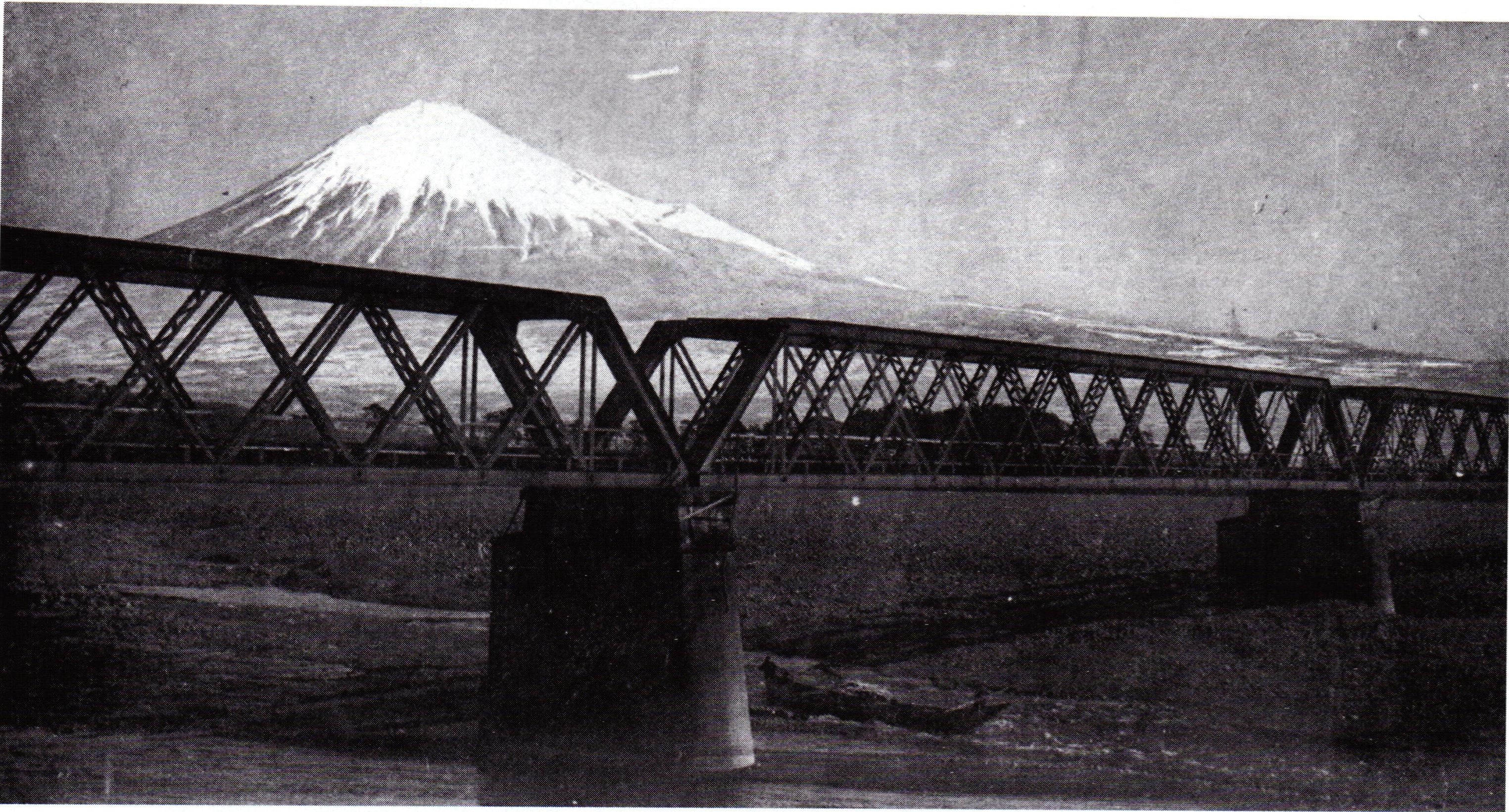 Fujikawa railway bridge on Tokaido mainline. The first bridge composed of double warren truss designed by Charles Pownall, made of wrought iron and steel.